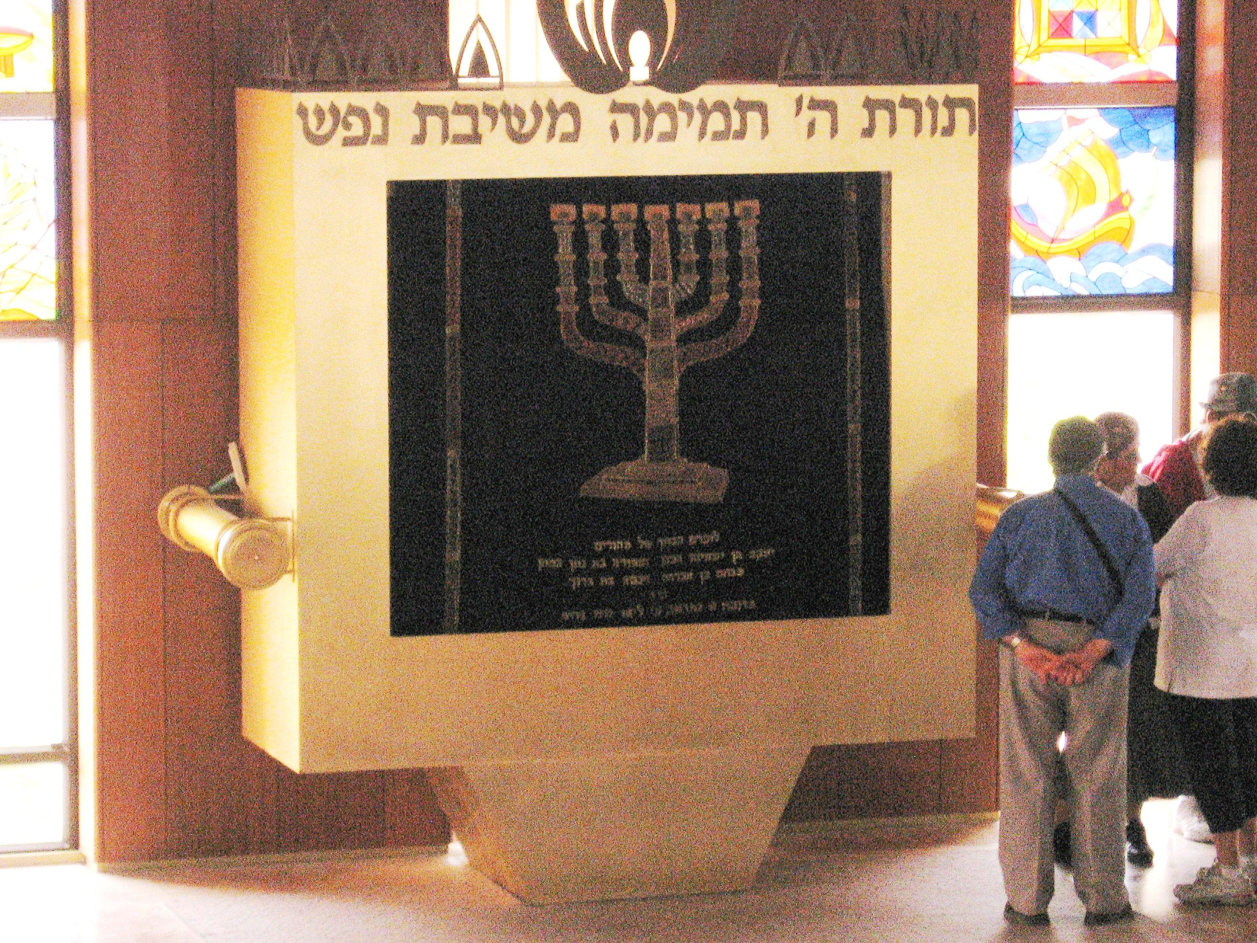 Holy_Ark_(in_a_synagogue Synagogue_of_new_SHILO as MISCAN 1